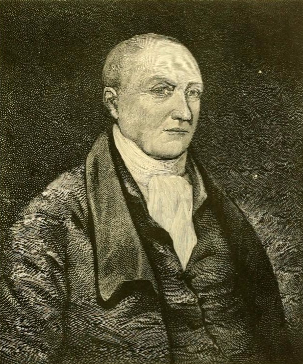 Portrait wood-engraving of Dean Wolstenholme Sr. (1757–1837), English animal painter.